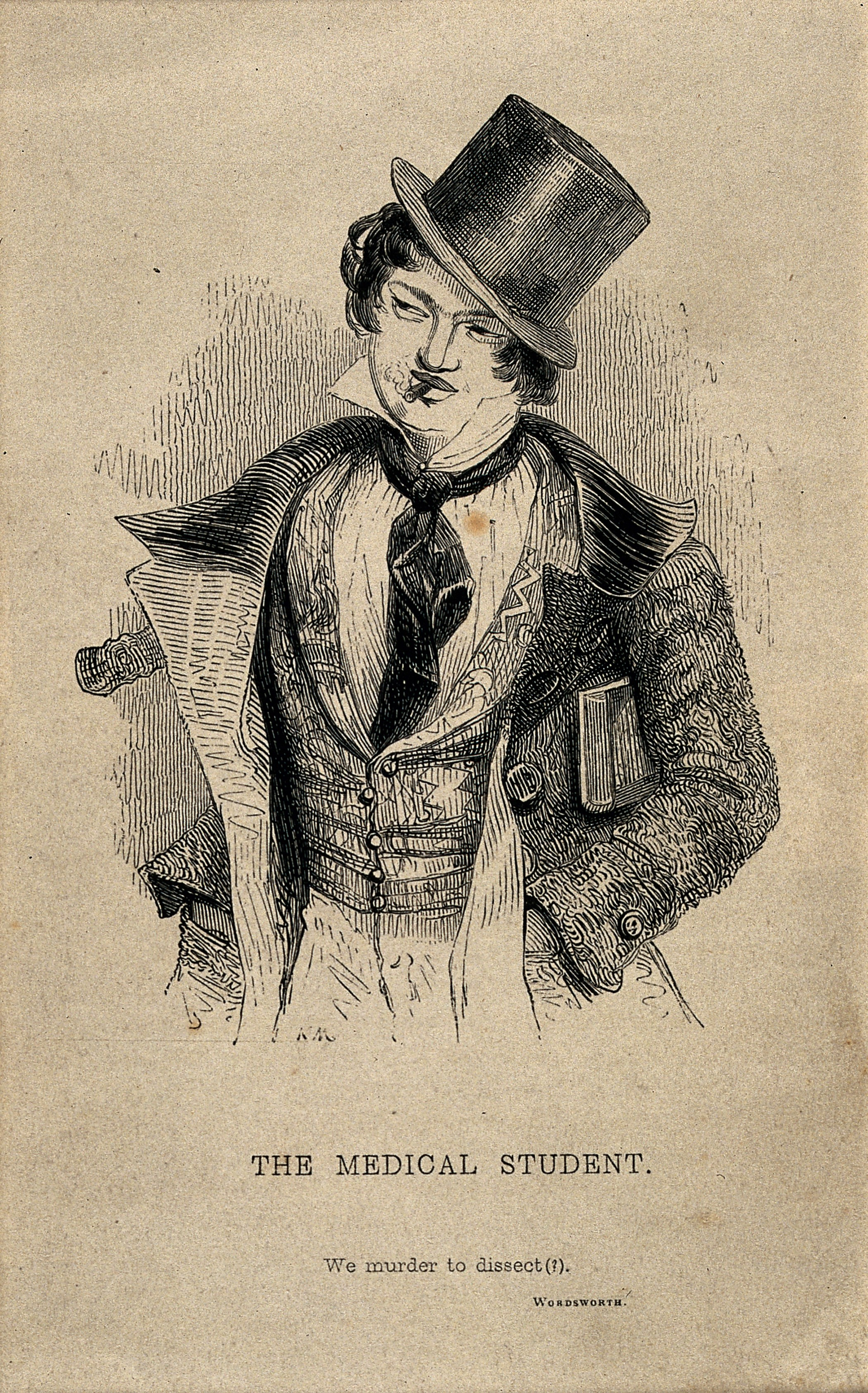 A foppish medical student smoking a cigarette; denoting a cavalier attitude. Wood engraving by J. Orrin Smith after J. Kenny Meadows. Iconographic Collections Keywords: Caricatures; William Wordsworth; John Orrin Smith; costume - history - 19th centu; CIGARETTES; Joseph Kenny Meadows; medical students; wood engravings